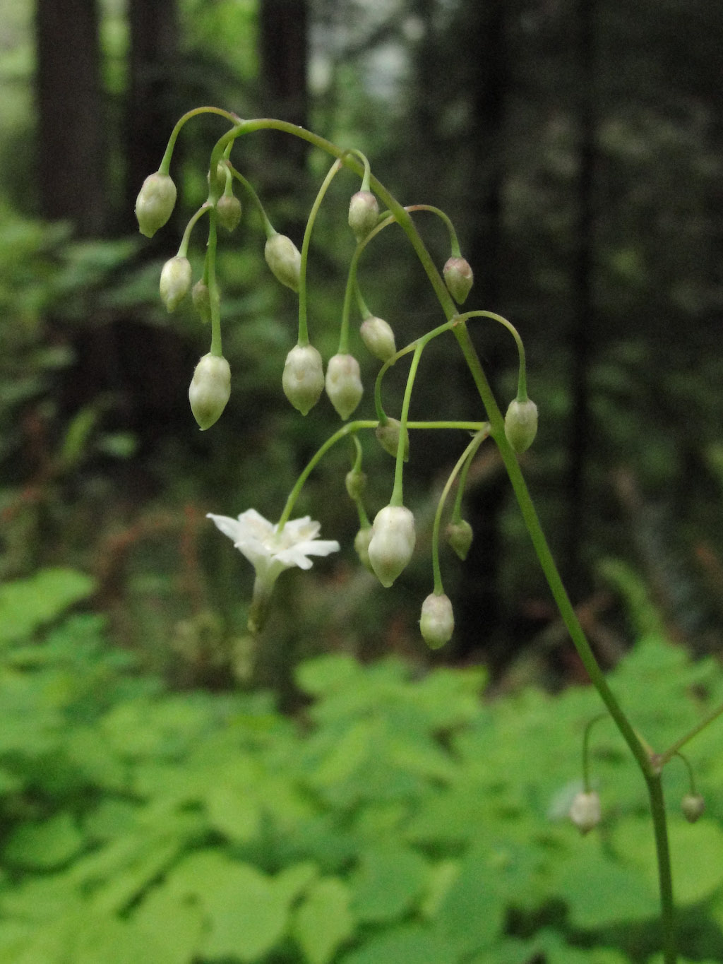 Vancouveria sp. in Jedidiah Smith Redwoods State Park, California, USA.